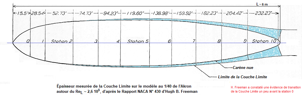 Thickness, measured by Hugh B. Freeman, of the Boundary Layer on the 40th model of the Akron airship. This image is from the NACA Report No. 430 of Hugh B. Freeman : Measurements of flow in the boundary layer of a 1/40-scale model of the US airship Akron The author has found a transition evidence of the Boundary Layer (from the laminar state to the turbulent state) a little ahead of the station 0. This rapid transition could be due to the turbulence of the Langley's Full Scale Wind Tunnel (now destroyed).